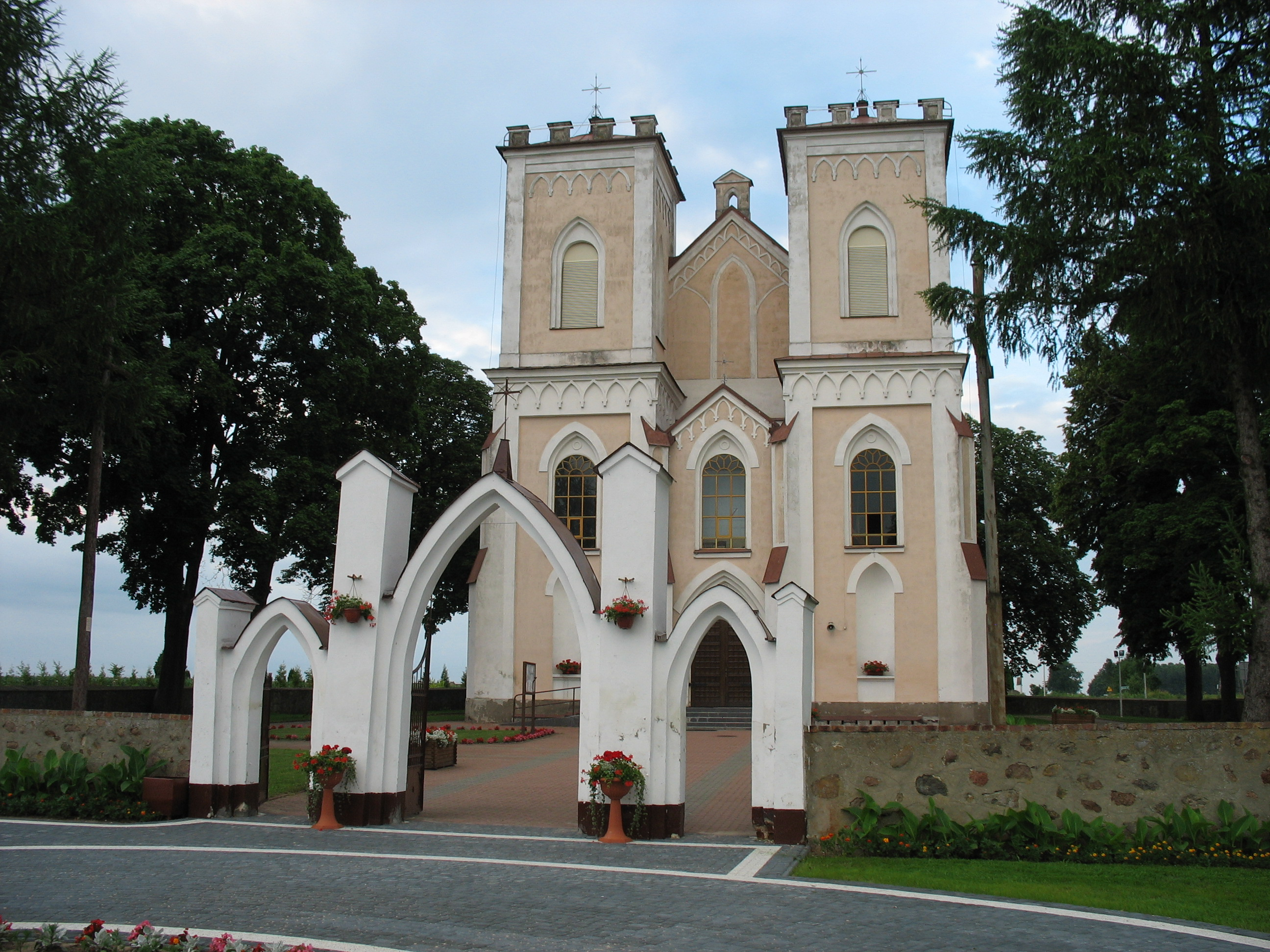 The roman-catholic church in Perlejewo, Poland